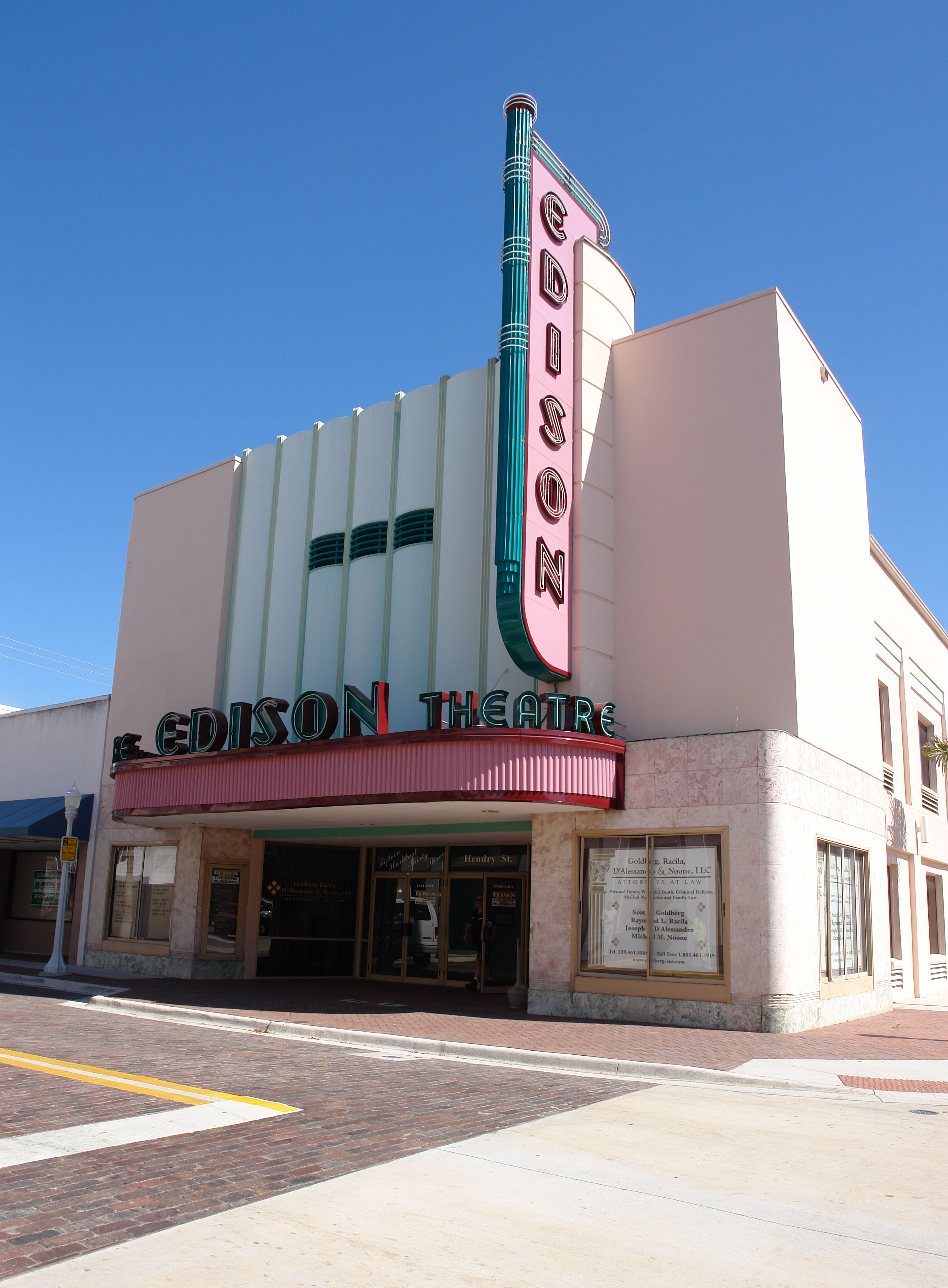 Fort Myers Downtown Commercial District: Edison Theater